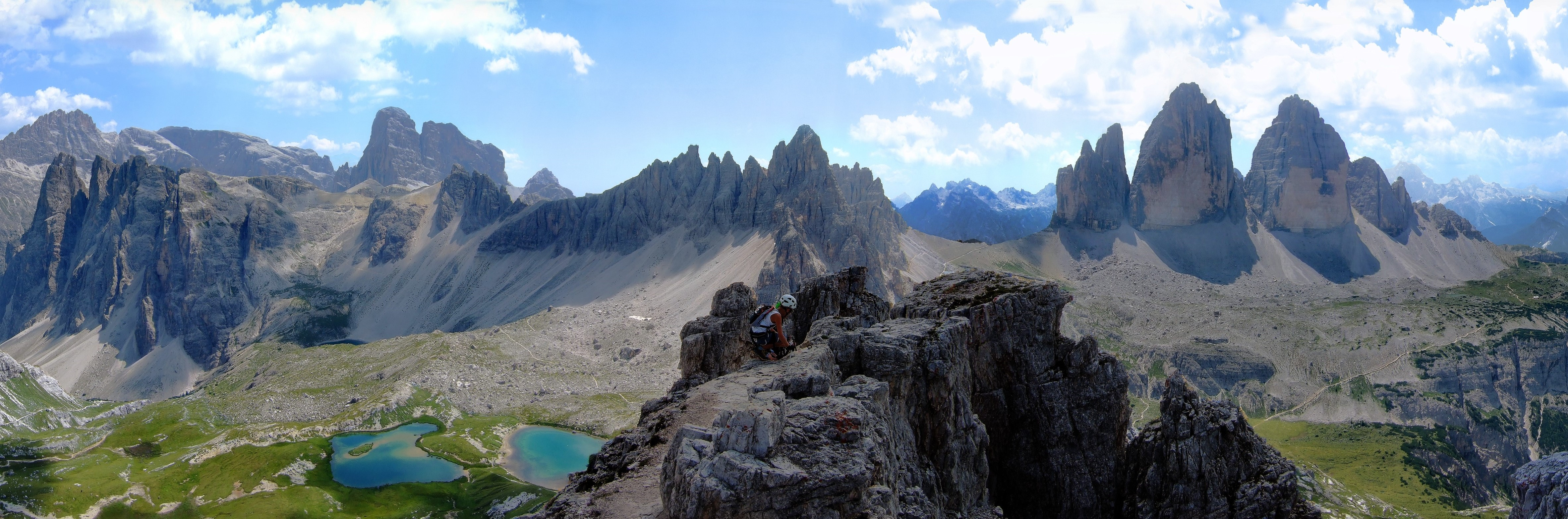 The photo shows a 360-degree view from Toblinger nodes near the Three Peaks. The photo was assembled from 12 individual shots.